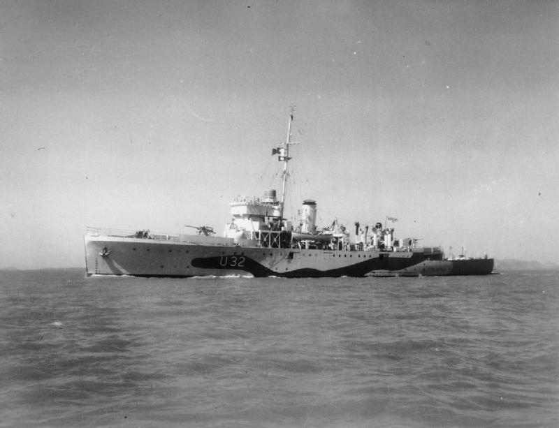 Photograph of British sloop HMS Shoreham.